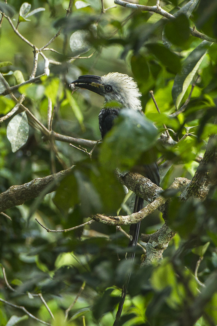 An (African) White-crested Hornbill (Berenicornis comatus or Tropicranus albocristatus) in the Kakum National Park (Ghana)